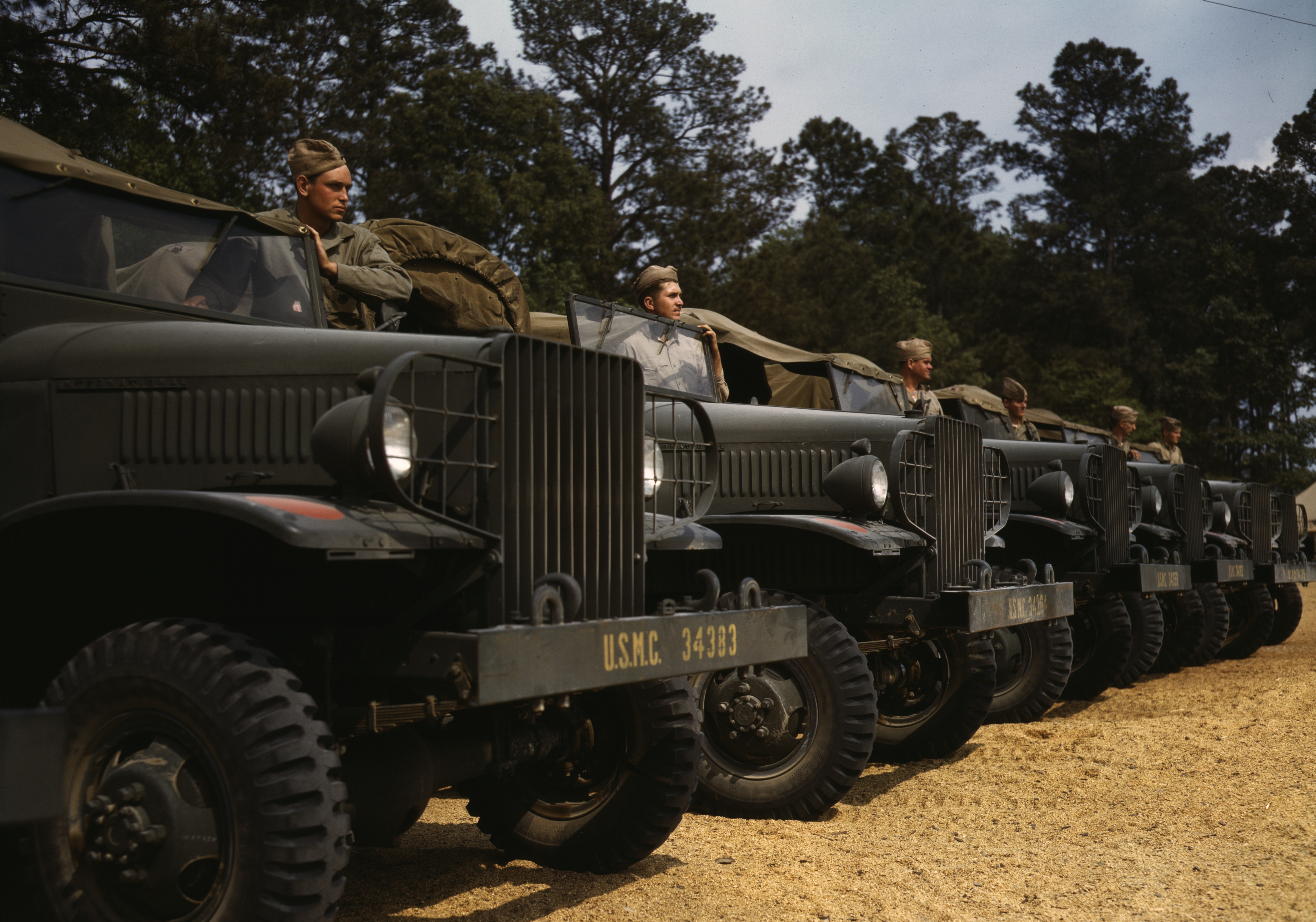 Marine motor detachment, New River, N.C. Palmer, Alfred T.,, photographer. 1942 May 1 transparency : color. Notes: Title from FSA or OWI agency caption. Transfer from U.S. Office of War Information, 1944.